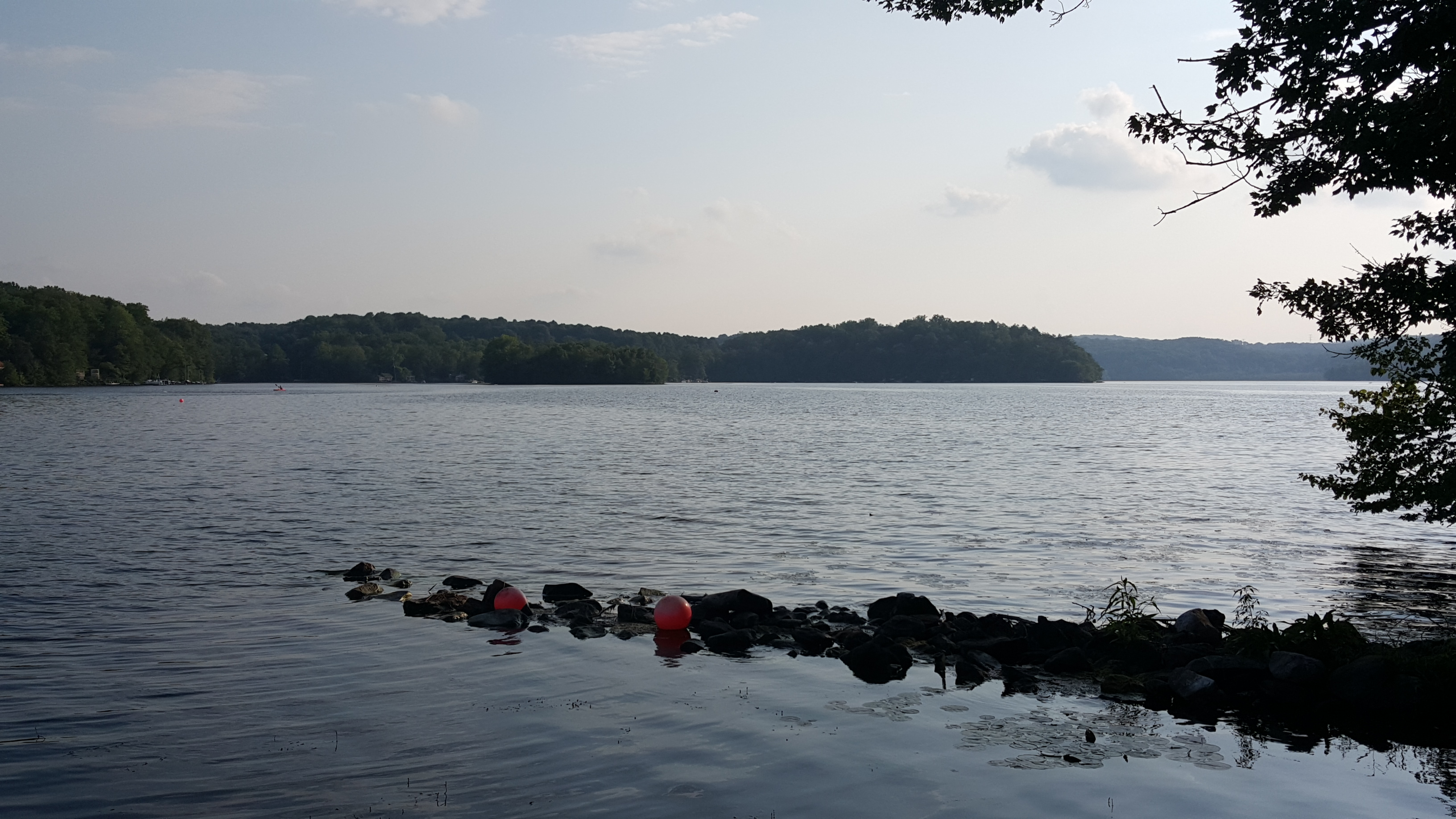 Swartswood Lake, in Swartswood State Park, Stillwater Township, New Jersey.